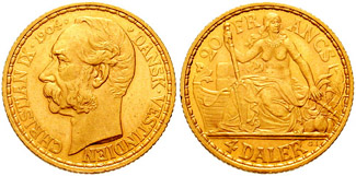 Danish West Indies. Christian IX of Denmark. 1863-1906. AV 20 Francs [4 Daler] (6.45 g). Dated 1904. CHRISTIAN IX • 1904 • DANSK VESTINDIEN Bare head left 20 FR ANCS Half draped female by Viking ship. In exergue 4 DALER Friedberg 2; KM 72. UNC, bag marks. From the Charles E. Weber Collection.